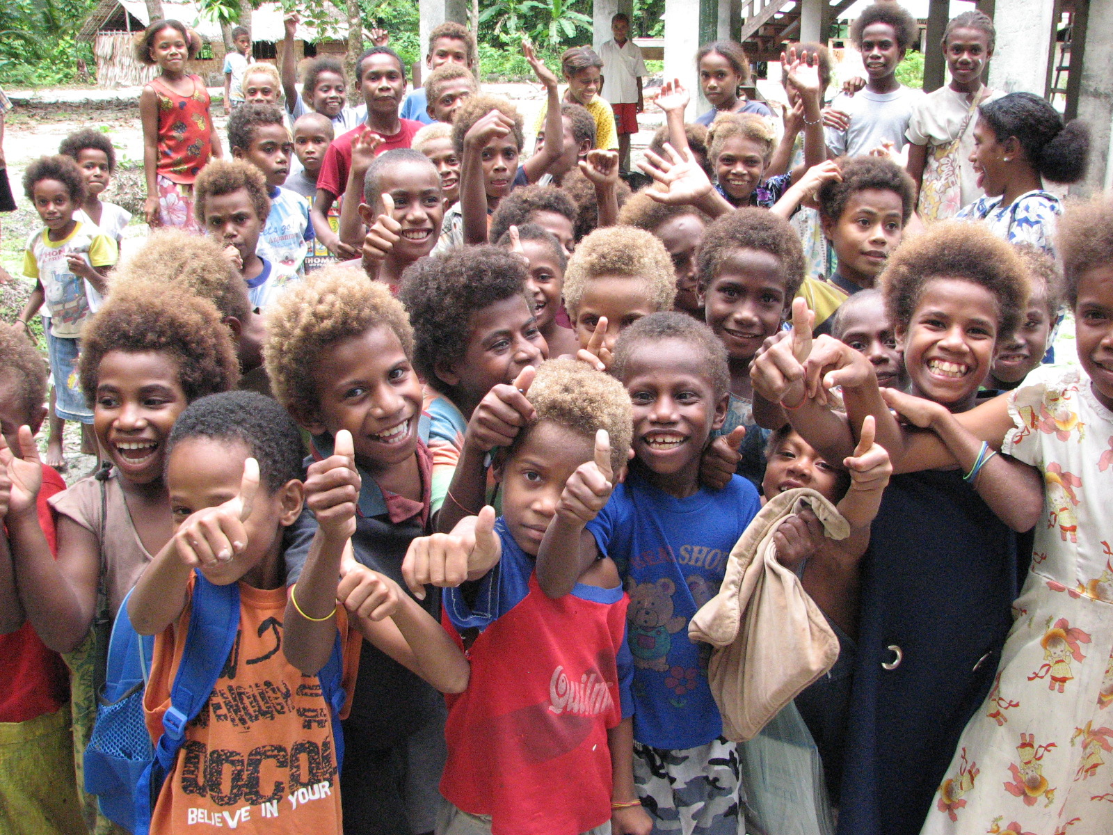 Children outside Tuo school, Fenualoa, Reef Islands, Solomon Islands.